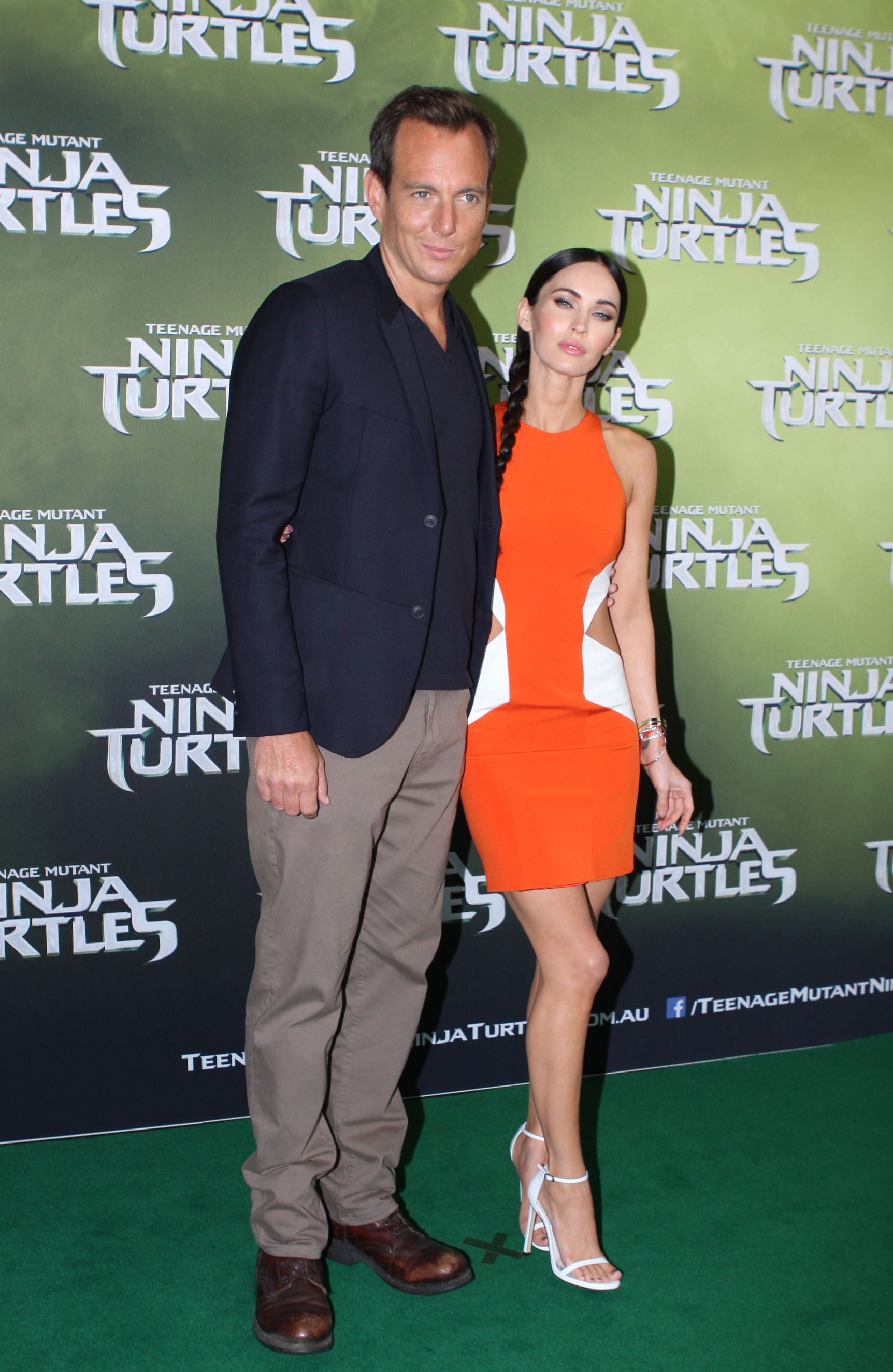 Teenage Mutant Ninja Turtles Special Event Screening - Megan Fox, Will Arnett